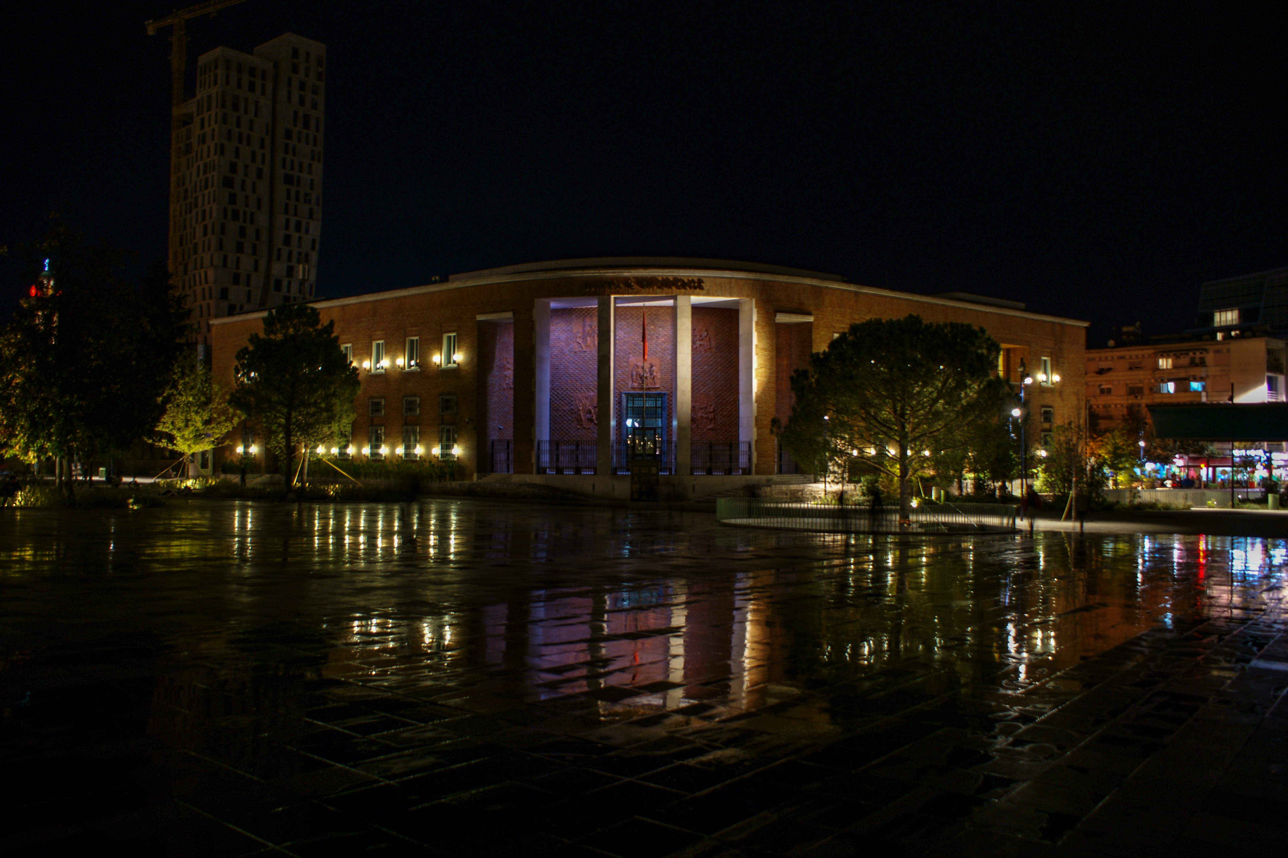 The bank of Albania - Downtown, Tirana, Albania